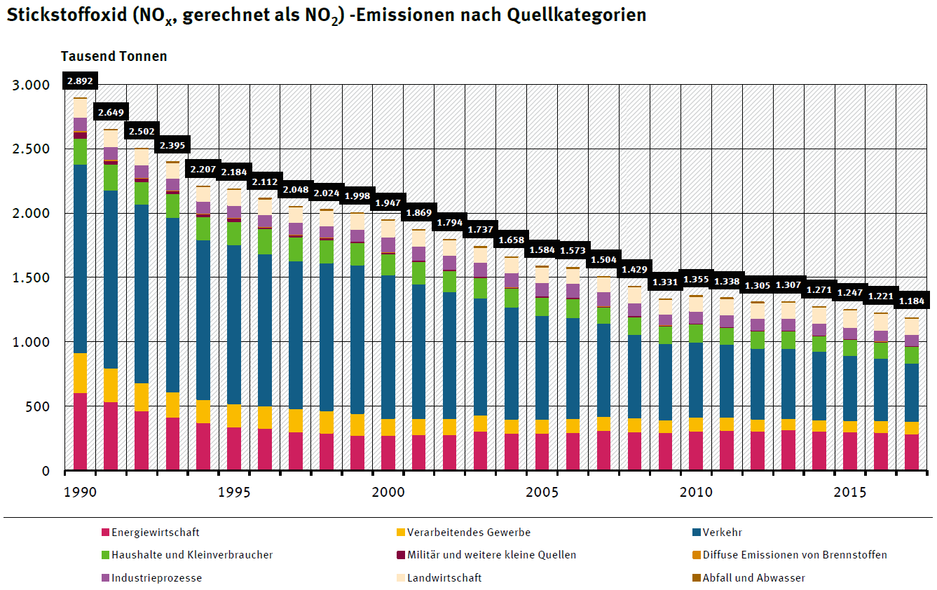 Nitrogen oxide (NOx, calculated as NO2) - emissions by sources